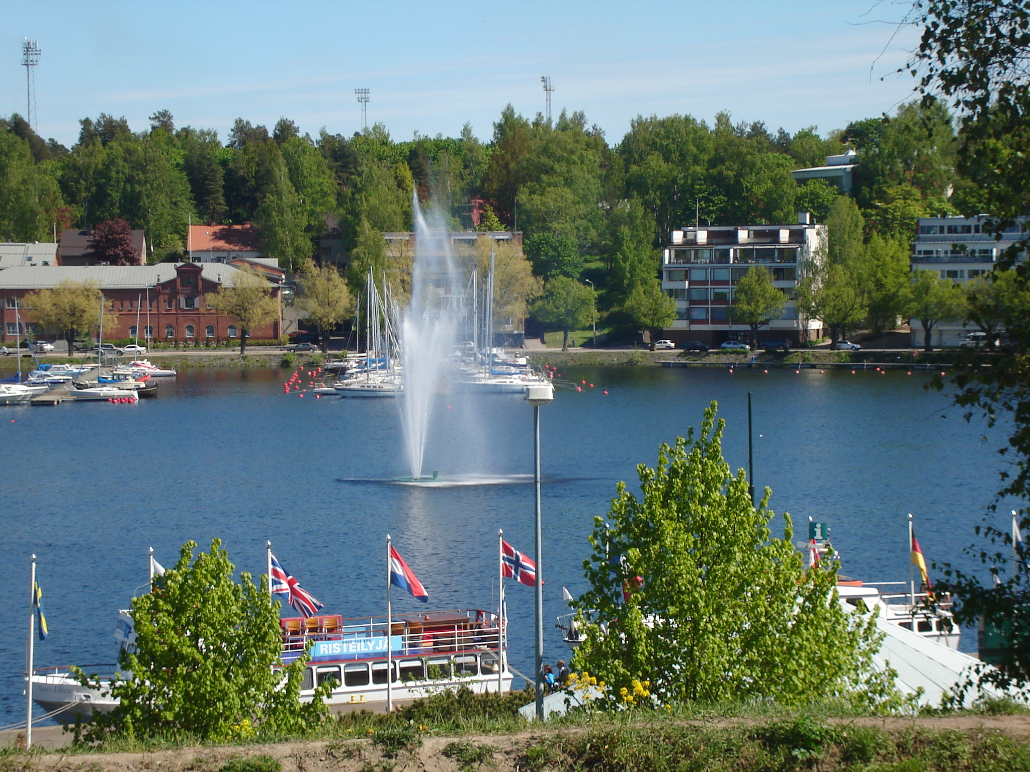 Lappeenranta Harbour on May 28, 2008.